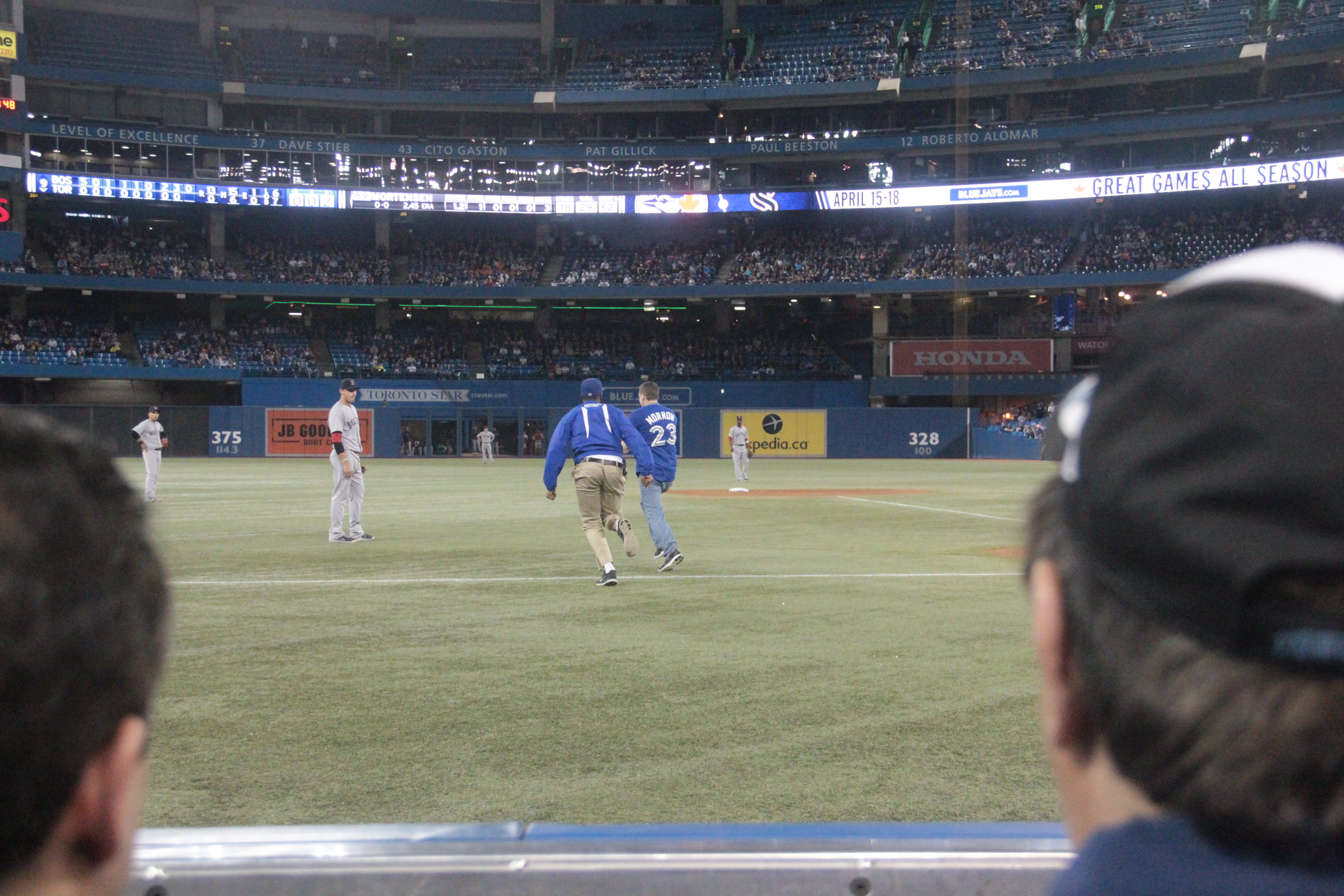 Pitch Invastion at Blue Jays baseball game